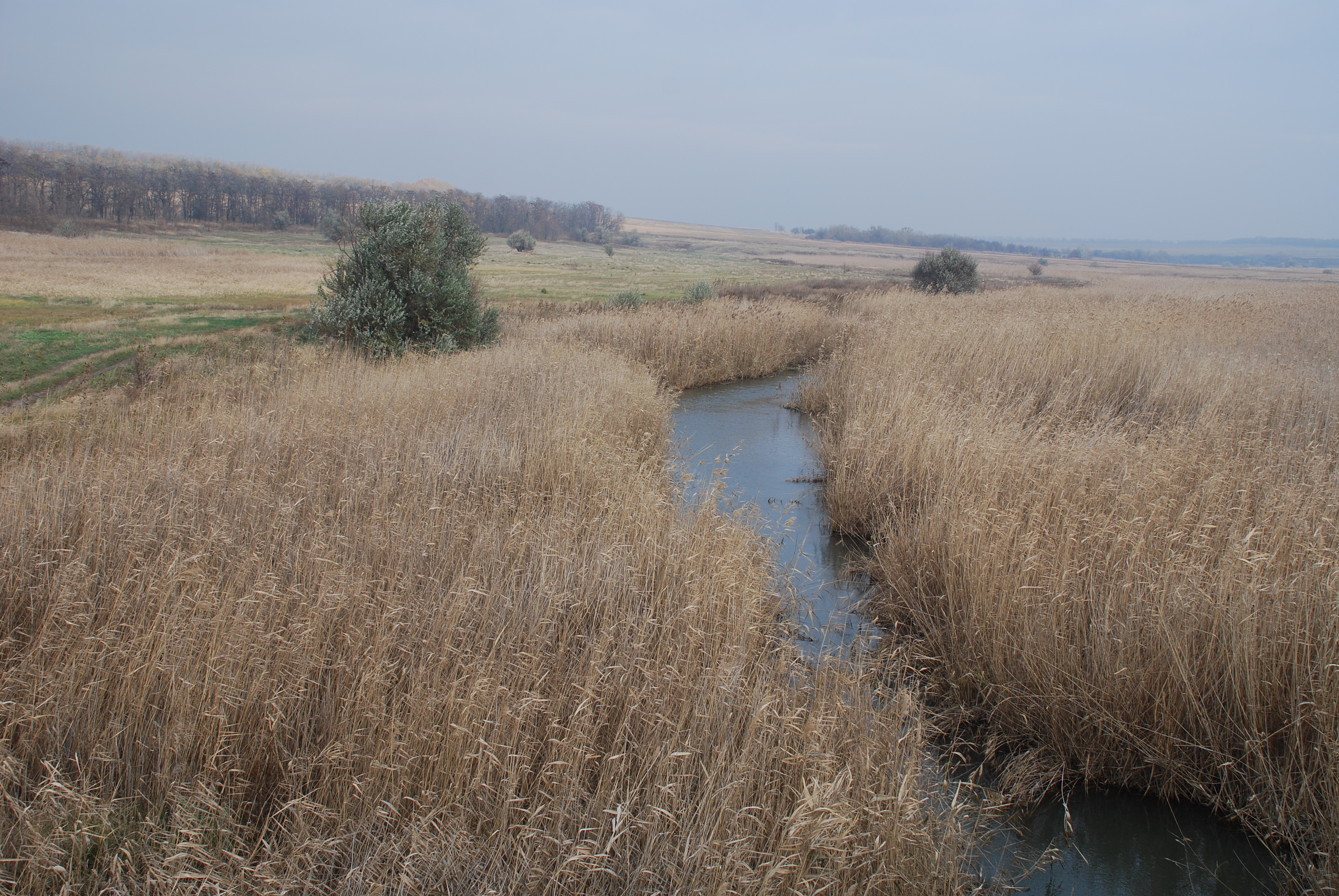 Ayuta River near Ayuta khutor.